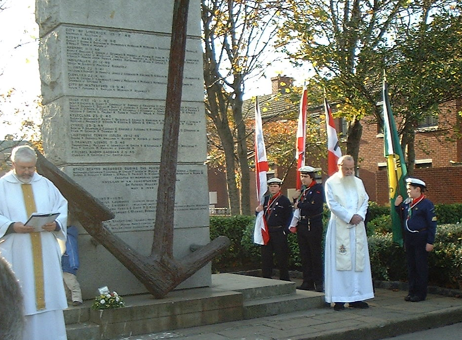 I took this photo at the memorial to Irish Seafarers at Memorial Bridge, City Quay, Dublin. This is an annual event, on the third Sunday of November. Sponsored by the Maritime Institute of Ireland Read the sermon (delivered later) at I release this photo, which I took It is a 20 foot high monolith of Wicklow granite, with the names of 149 seamen who lost their lives on neutral Irish ships during the The Emergency 1939-1945. the 200-year-old anchor stands 17 foot tall.